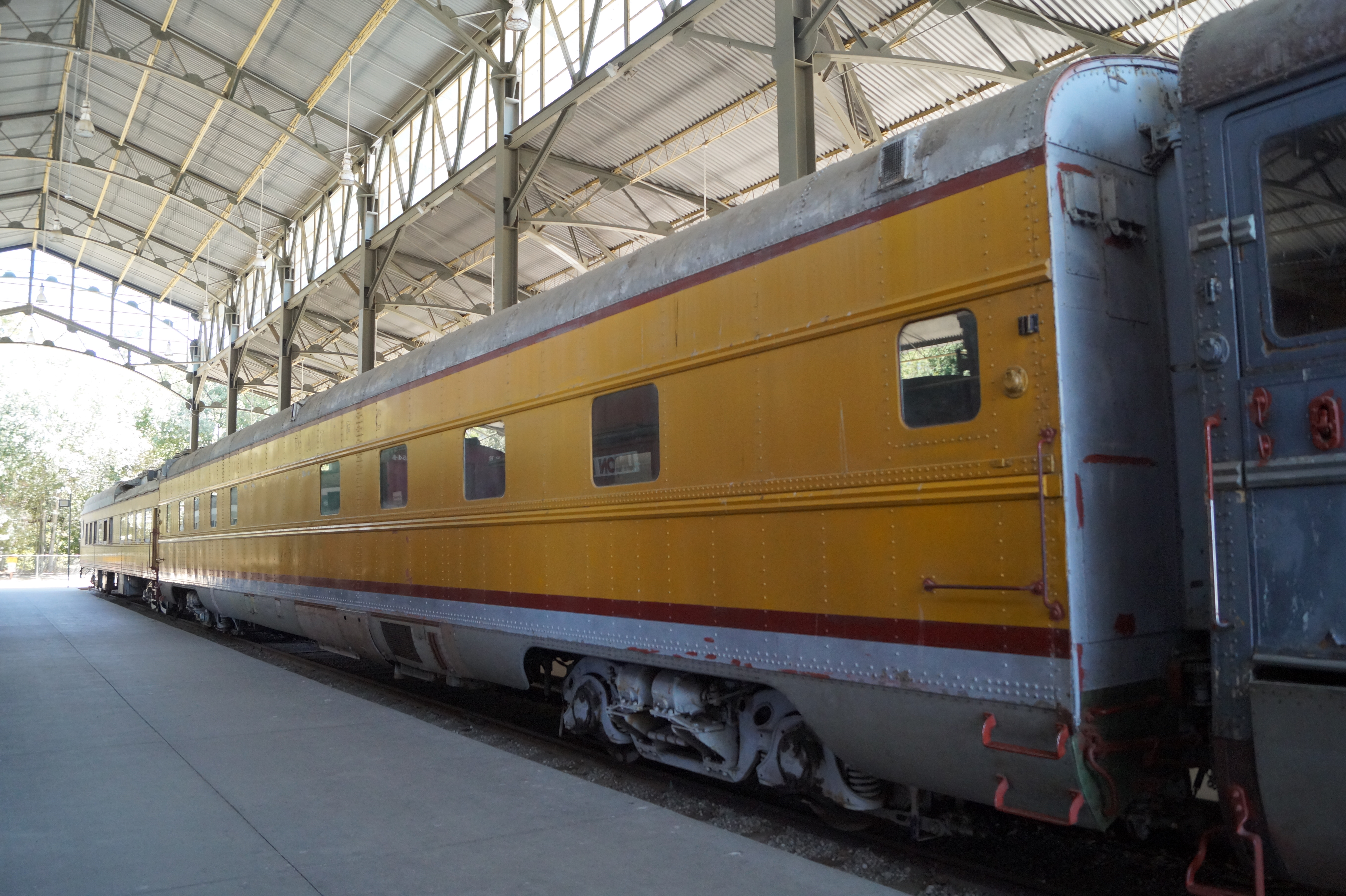 Travel Town Museum is a transport museum dedicated in the northwest corner of Los Angeles, California's Griffith Park. The history of railroad transportation in the western United States from 1880 to the 1930s is the primary focus of the museum's collection, with an emphasis on railroading in Southern California and the Los Angeles area.